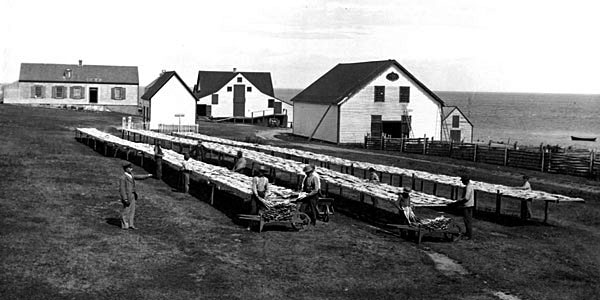 Drying fish at Robin & Co. in Caraquet, in 1895.